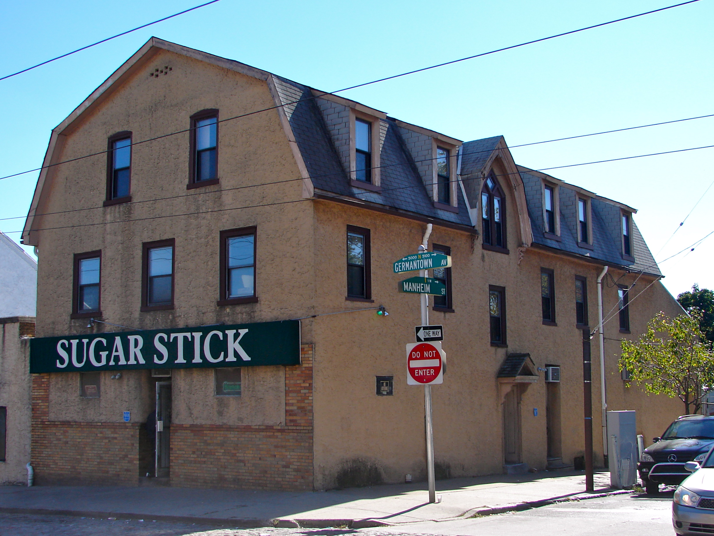 5060 Germantown Ave., Philadelphia, PA. Contributing structure to Colonial Germantown Historic District. General Wayne Hotel, c 1803 , gambrel roof added and enlarged 1866. 2.5 stories, brick and stone with wood trim Colonial or Dutch Colonial style